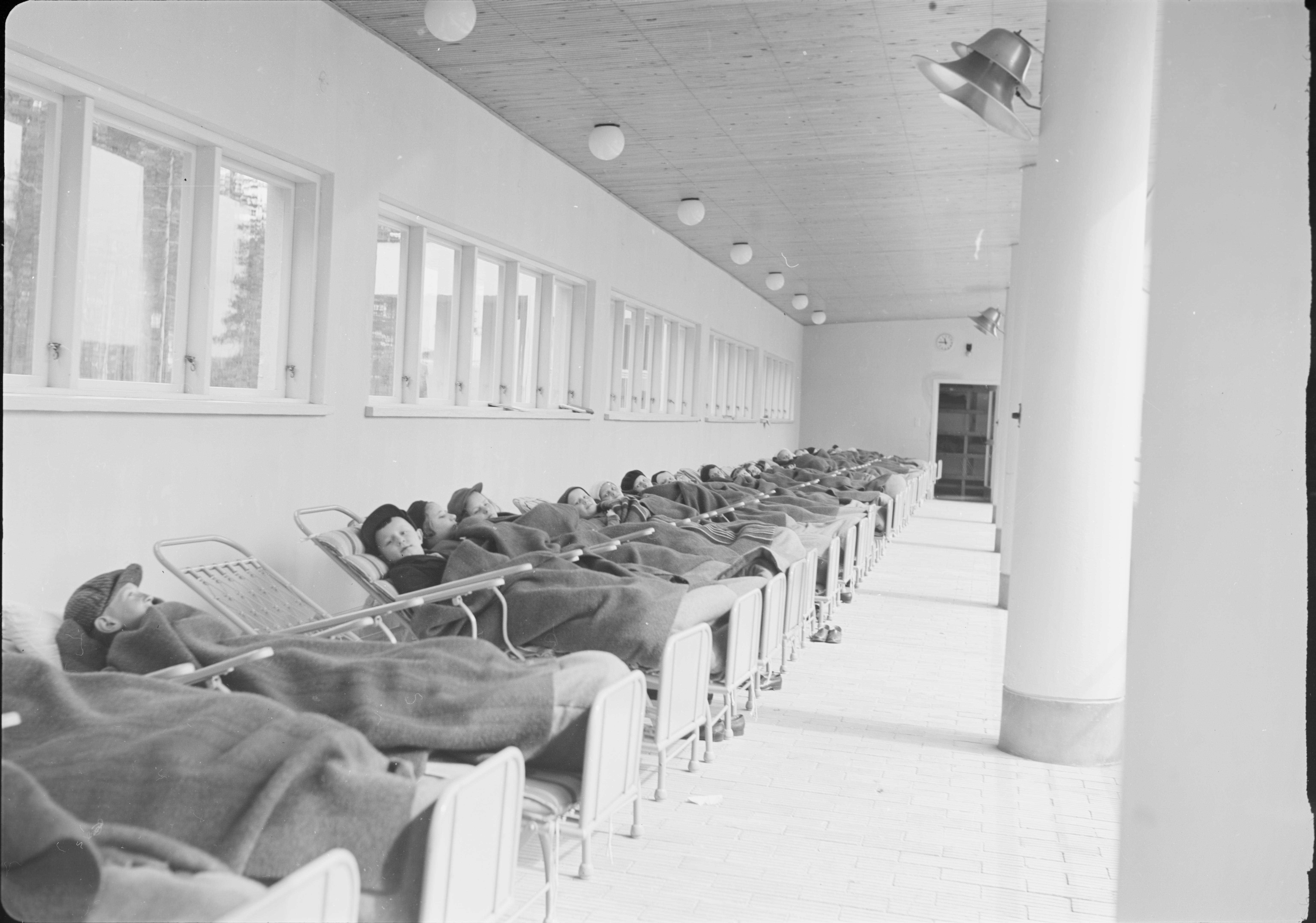 Children in a tuberculosis sanatorium in Muurame, Finland.